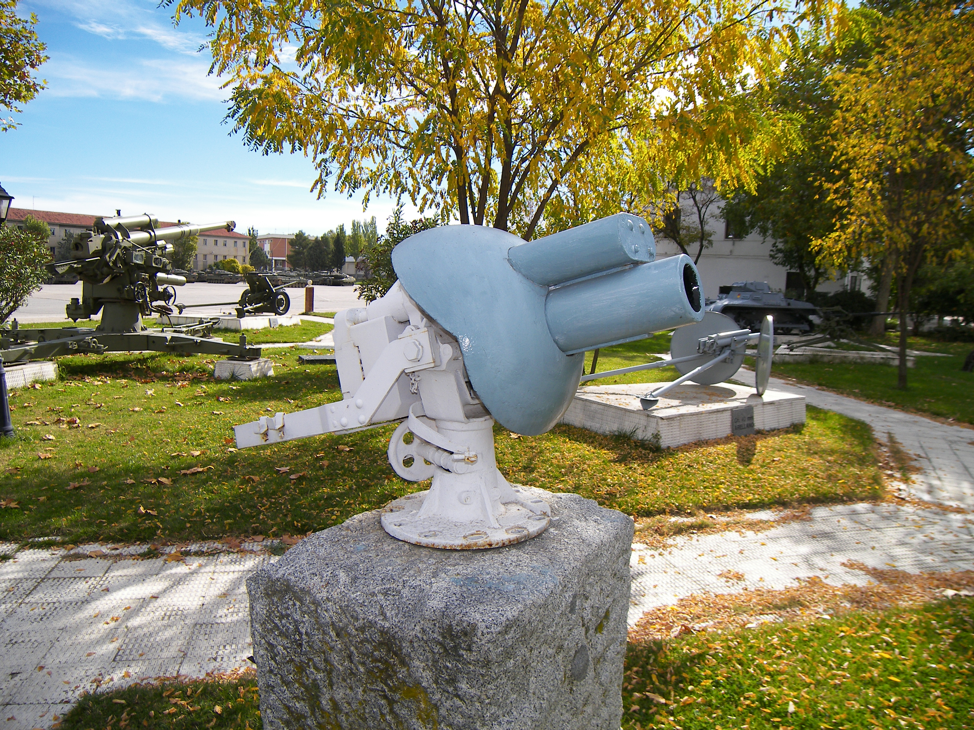 Photograph of 75mm Blockhaus cannon of the Schneider CA1 tank at the El Goloso museum of armored vehicles in Spain. Originally uploaded to EN Wikipedia as Image:CA 1 Schneider 1 cannon.jpg by User:Catalan 29 October 2007